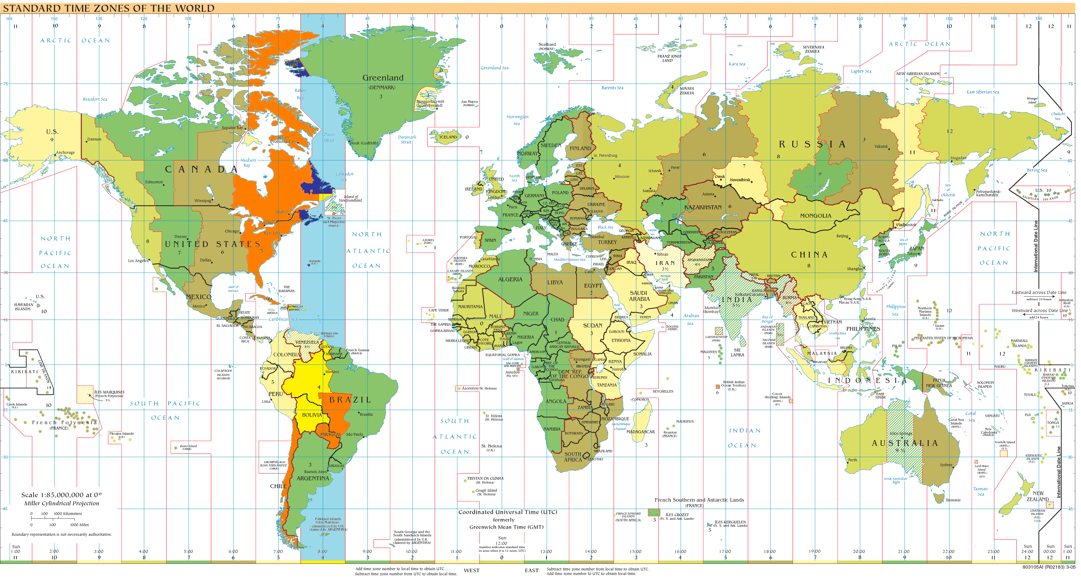 Copy of Timezones2008.png , highlighting UTC-4 Dark blue - UTC-4 in December (Northern Winter/Southern Summer) Orange - UTC-4 in June (Northern Summer/Southern Winter) Yellow - UTC-4 all year round Light blue - UTC-4 Sea areas